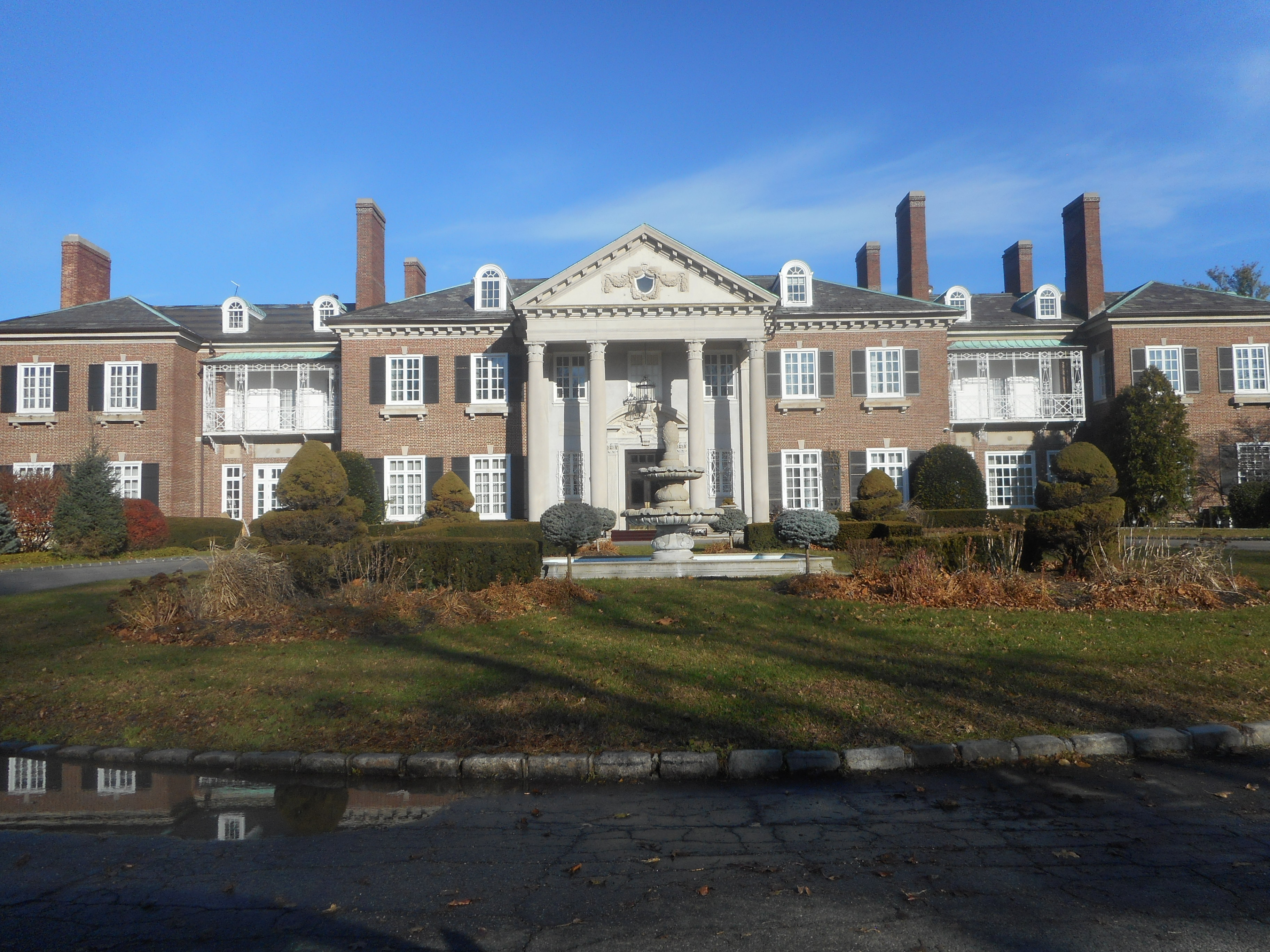 Shot of "The Manor," also known as Glen Cove Mansion Hotel and Conference Center, the former estate of John Teele Pratt and Ruth Baker Pratt as seen from directly in front of the front doors in Glen Cove, New York. The old Gold Coast Mansion is located on the southwest corner of Dosoris Lane and Old Tappan Road. Today this mansion is a hotel that makes the Garden City Hotel look like some no-frills motel along US 301 in southern Maryland.